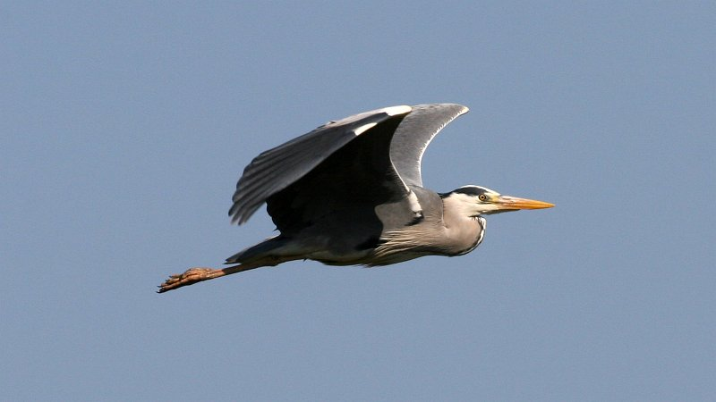 Grey Heron (Ardea cinerea)